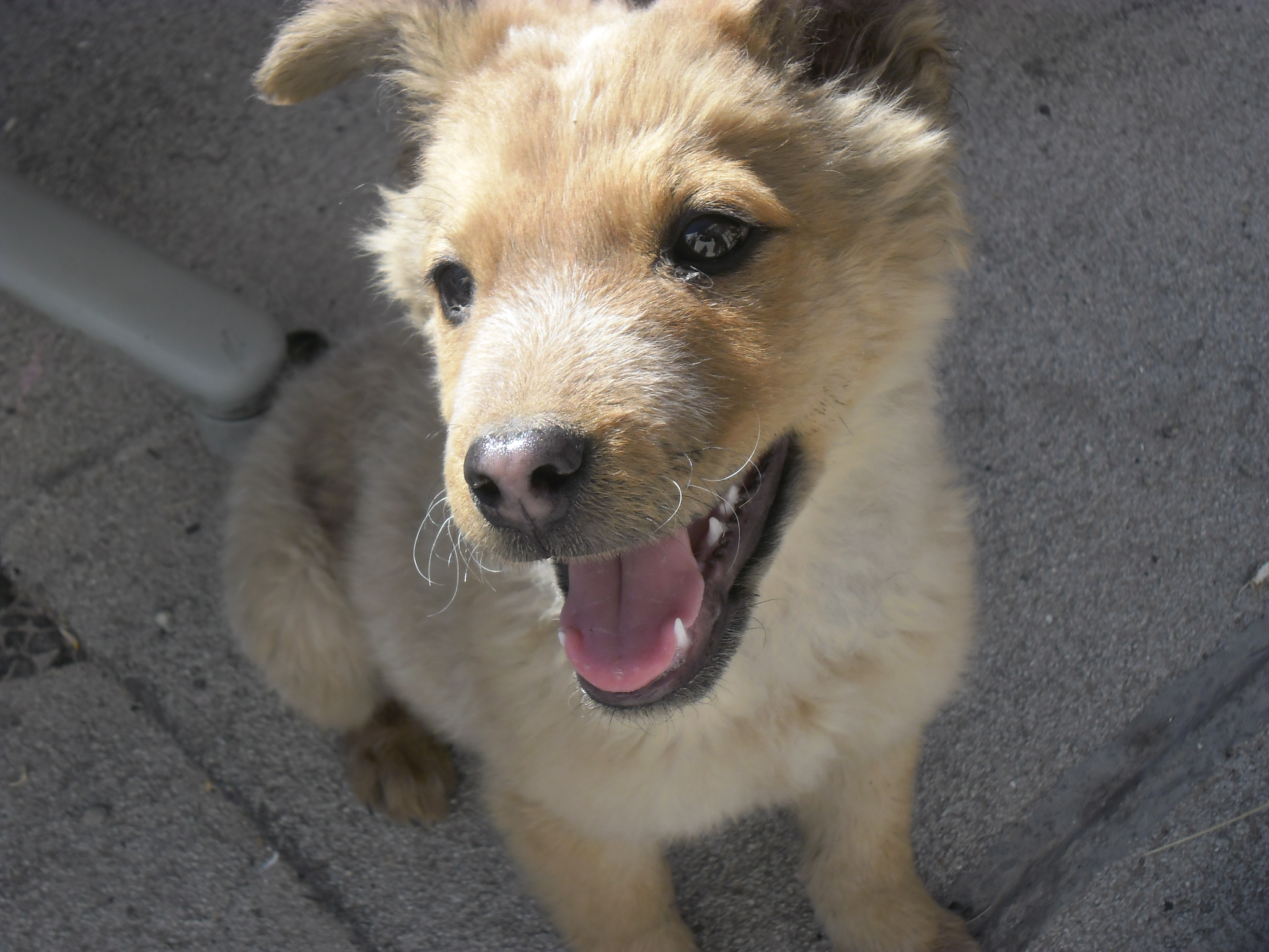 puppy